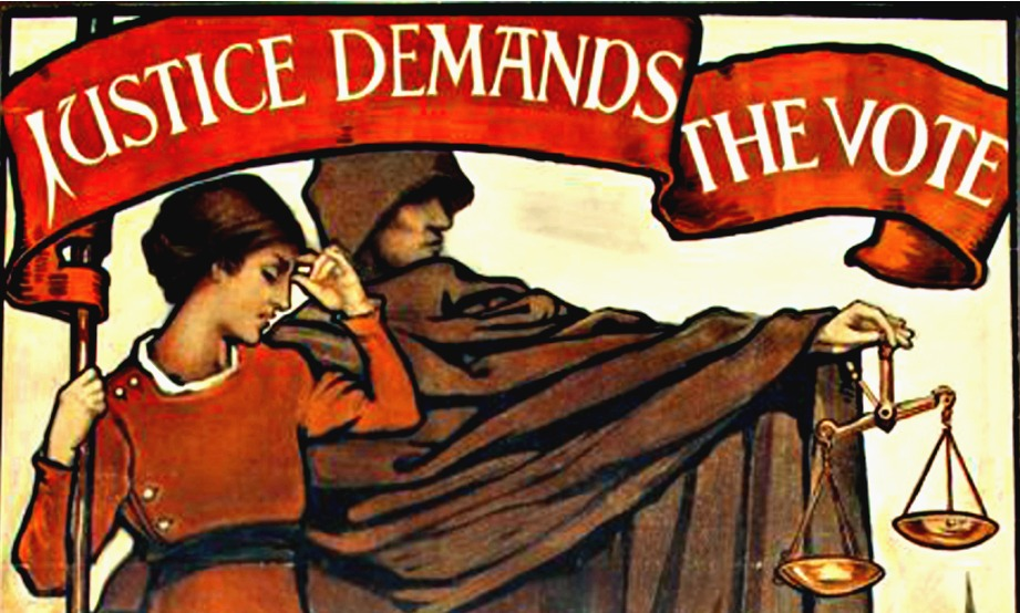 Suffragette poster designed by Mary Lowndes, 1909, published by Brighton and Hove Women's Franchise. Artists' Suffrage Leage